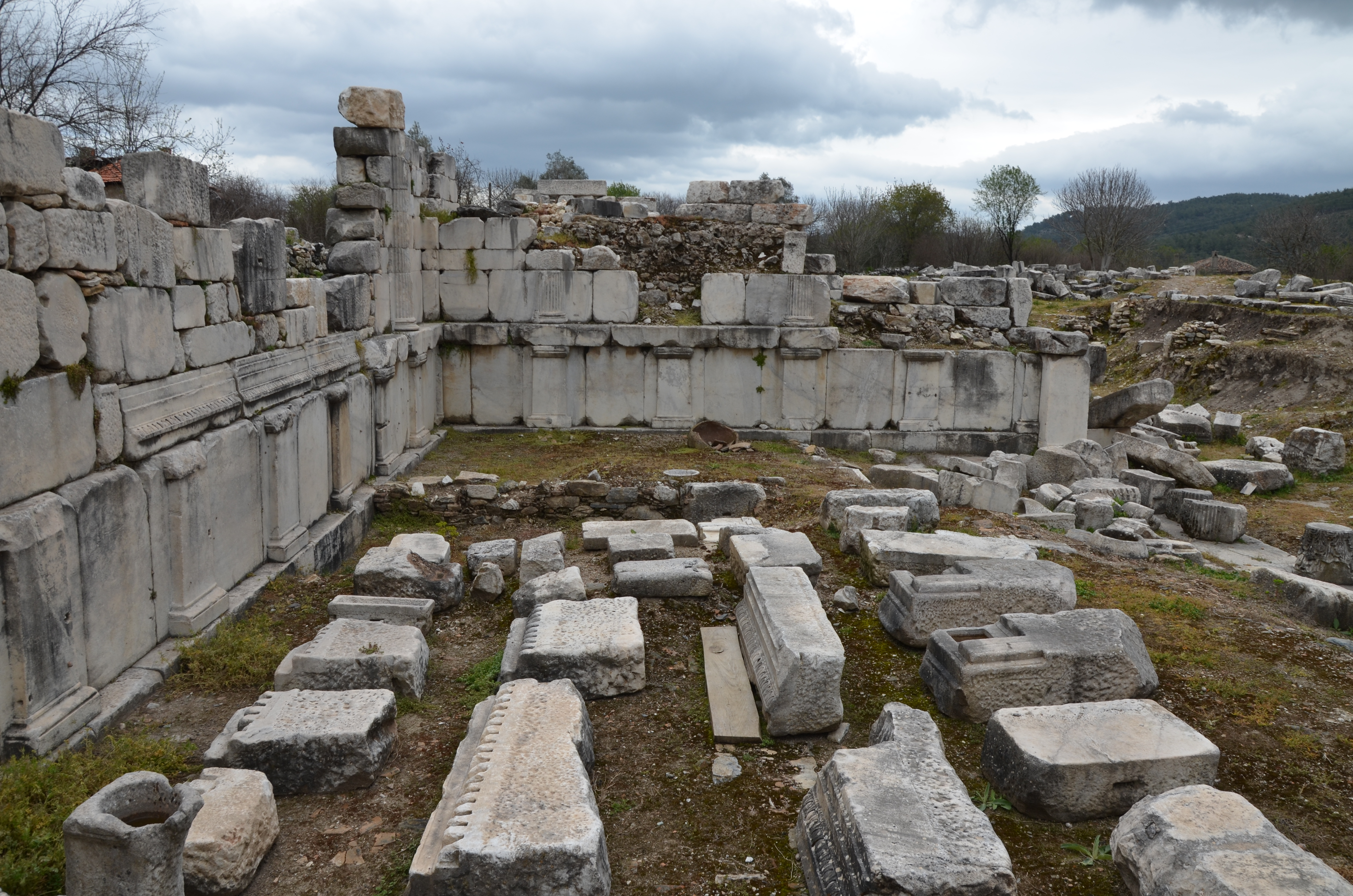 The ruins of the impressive Gymnasium, built in the second quarter of the 2nd century BC to the west end of the city, Stratonicea Caria, Turkey